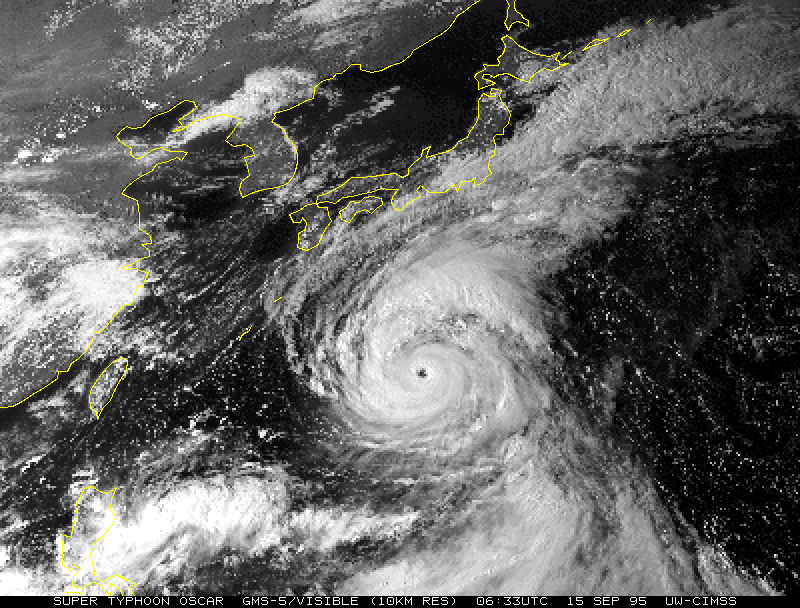 Typhoon Oscar 1995.